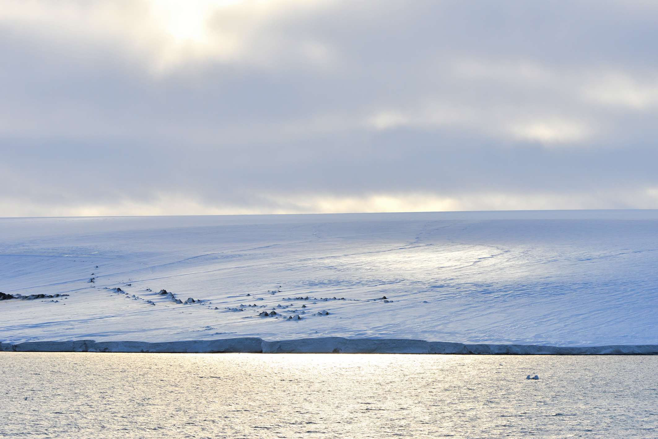 Zhuravlev Bay, Academy of Sciences Icecap (Komsomolets Island, Severnaya Semlya, Russia)